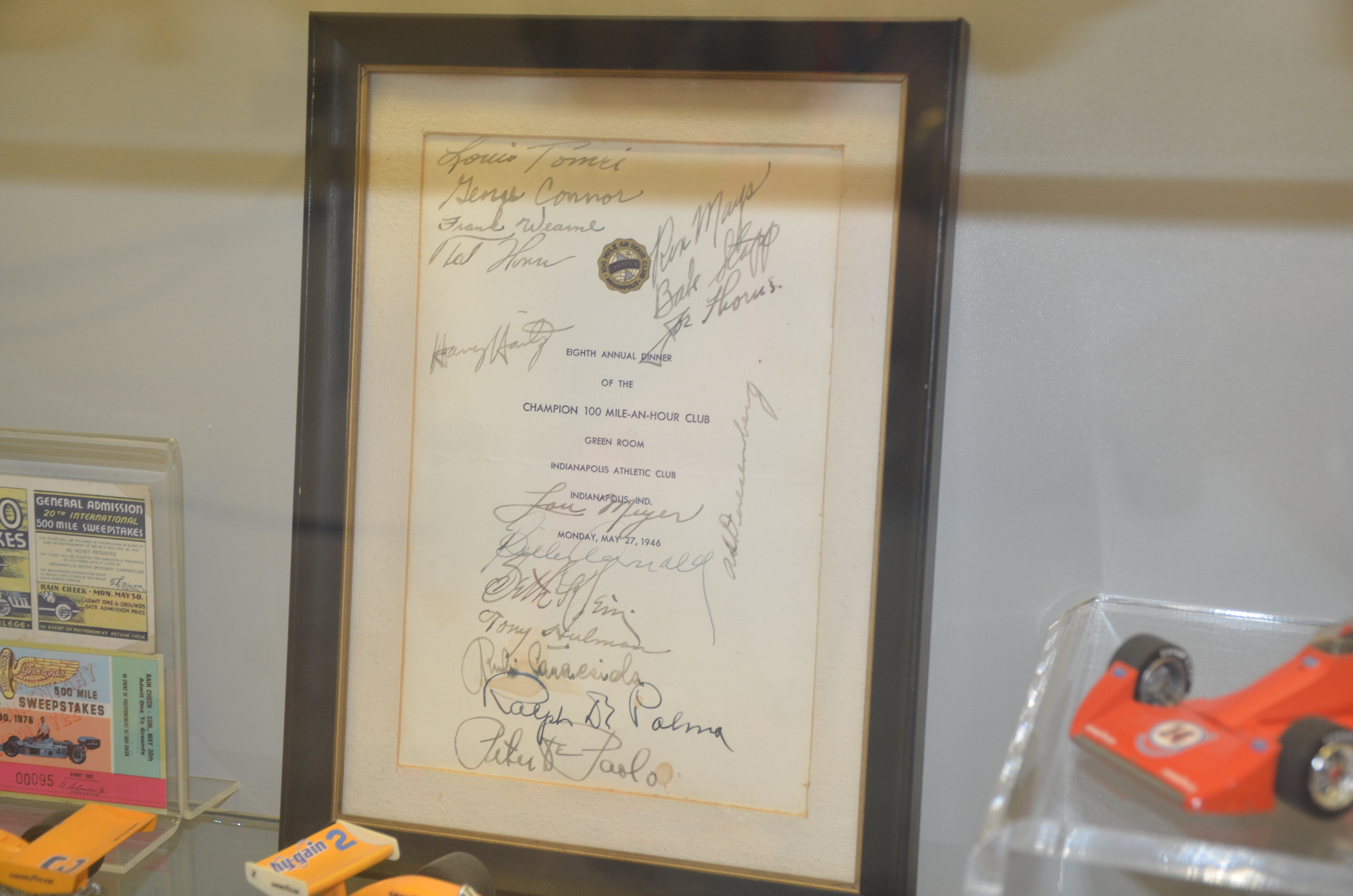 Champion 100 MPH Club certificate at the Indianapolis Motor Speedway Museum